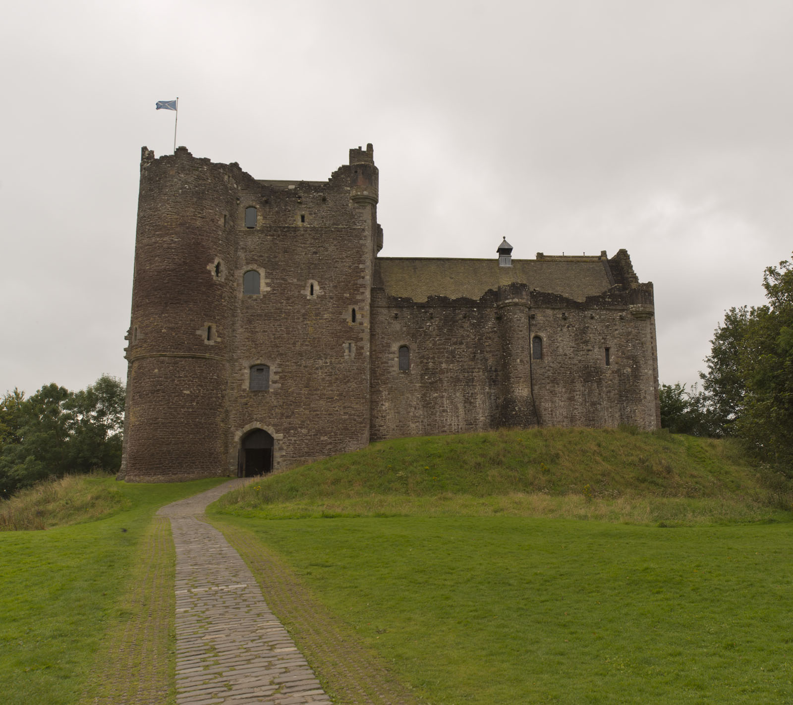 Doune Castle